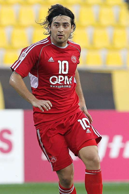 Al Arabi's Leonardo Pisculichi runs with the ball during a Qatar Stars League match. Picture by AK Bijuraj